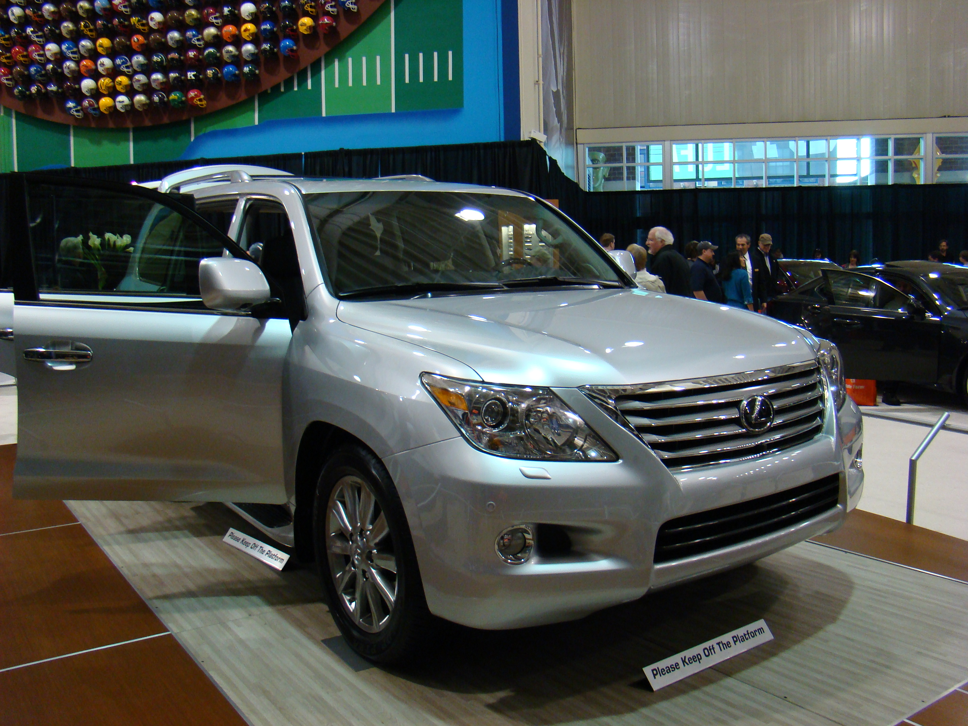 2007 Lexus LX 570